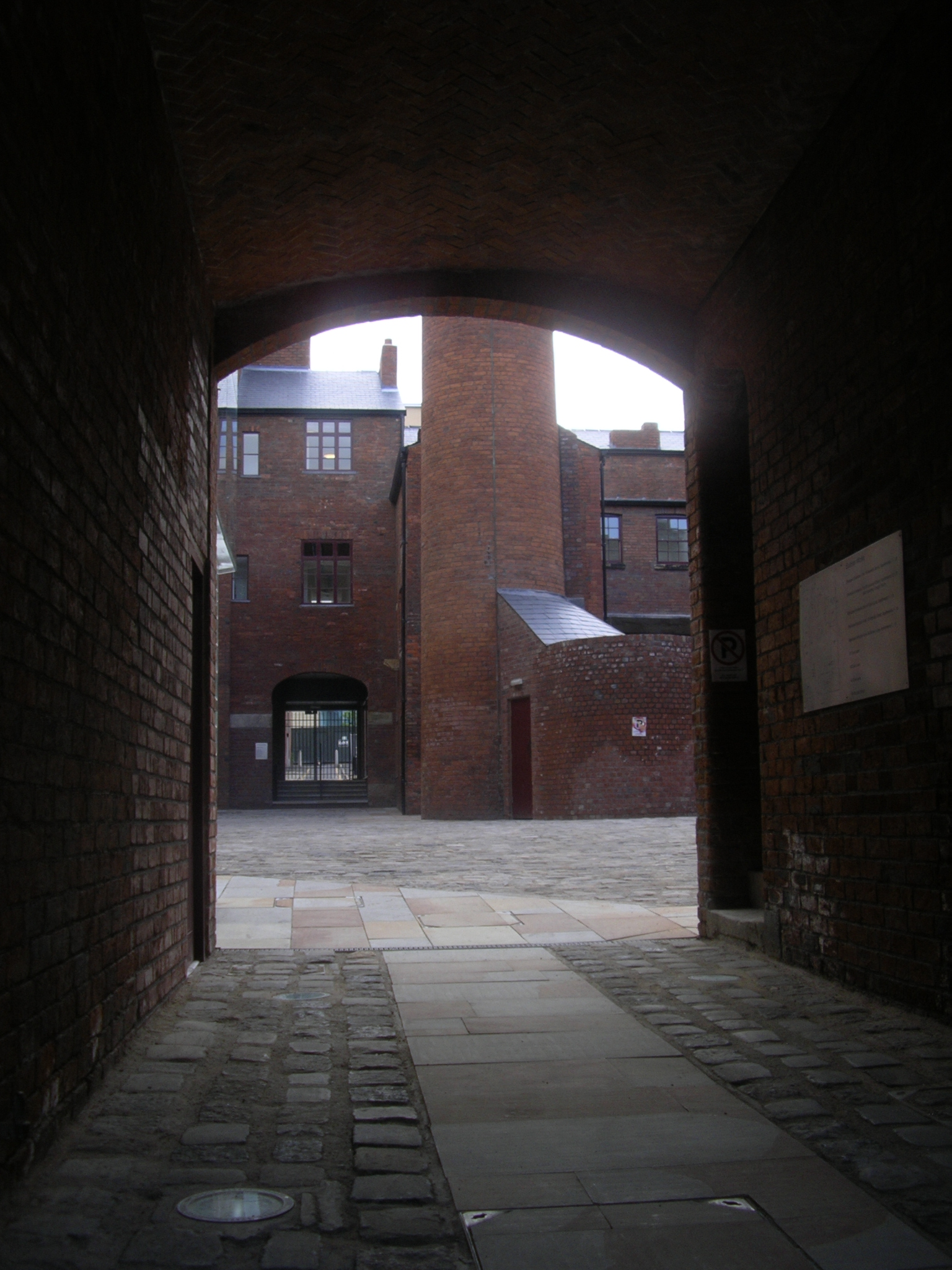 View through the main entrance into the courtyard of Butchers Wheel in Sheffield.